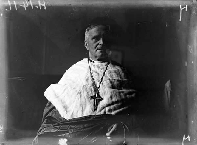 Cardinal MacRory (former Bishop of Down and Connor) pictured on his first official visit to Belfast. The quality of this photo is not good, but the contrasts of light and shade work, I think. This is an extract from the Irish Independent's solemn report on the Cardinal's visit to Belfast: "Lasting monuments to his self-sacrificing work exist on every side, but that which his Eminence may well value more than anything else is the respect and affection of the people whose shepherd he was during a period of bitter persecution. Happily the days of the pogrom have passed, but not yet has the dawn of even-handed justice come to brighten the lot of the Northern Catholics ... Truly, as was said, it is a terrible thing that in a Christian country, even as in Russia, people should be made to suffer because of their religion." Date: 7 October 1930 NLI Ref.: IND_H_1411